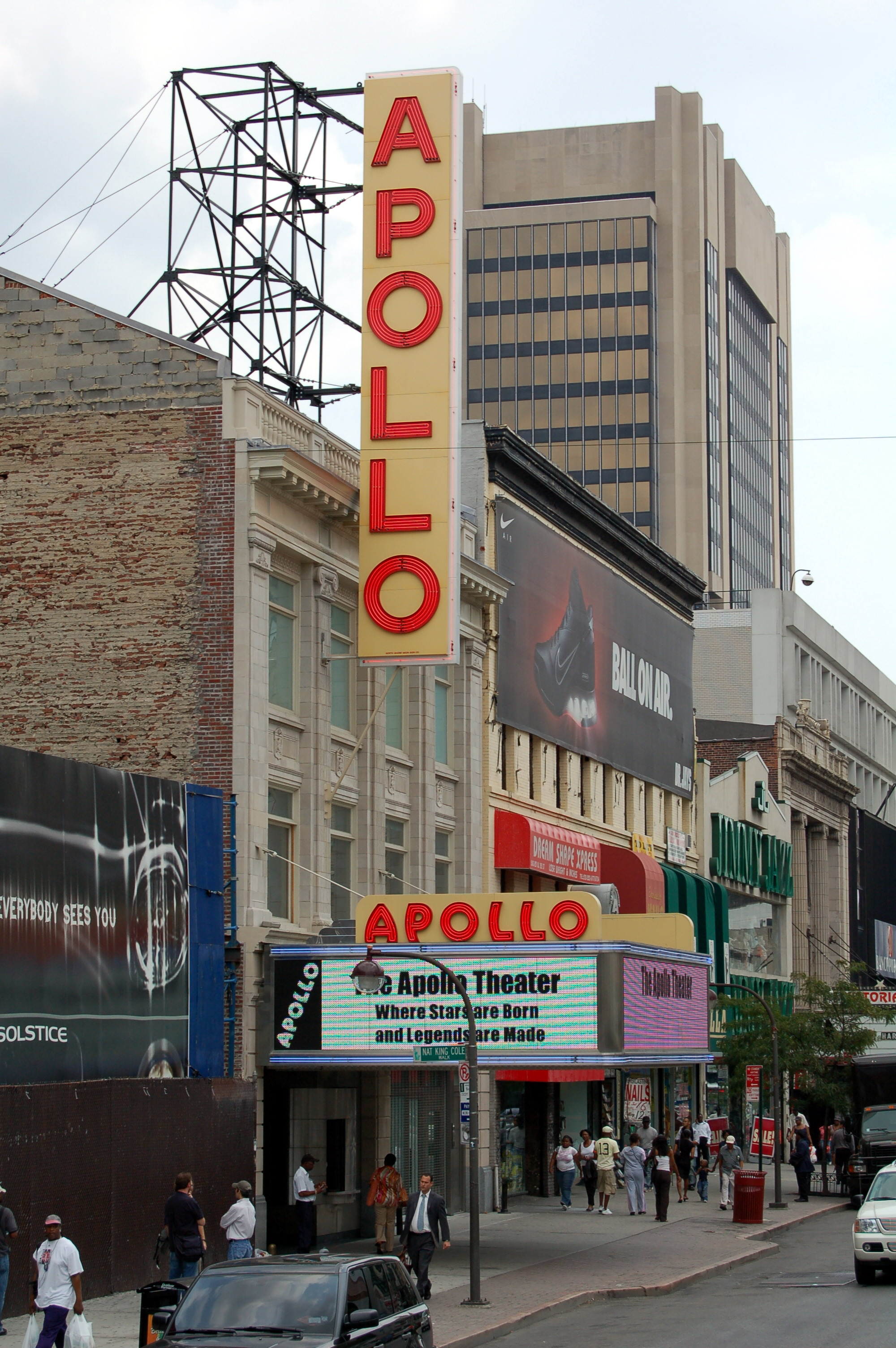 Apollo Theatre - New York